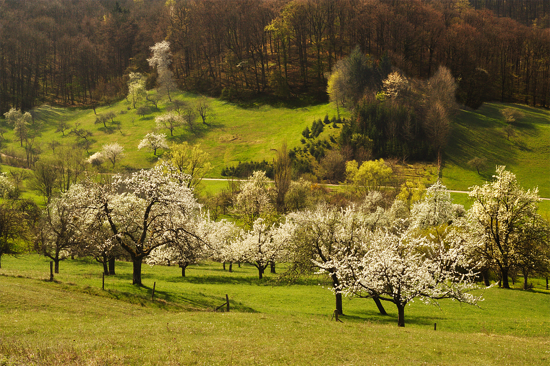 Weppachtal, a small valley, its brook is a tributary to the Lenninger Lauter, one of the surface waters that erode the Albtrauf (cuesta of the Swabian Alb), next to the village Brucken (Owen), Baden-Württemberg. The cherry trees in 2014 were blossoming already in April.